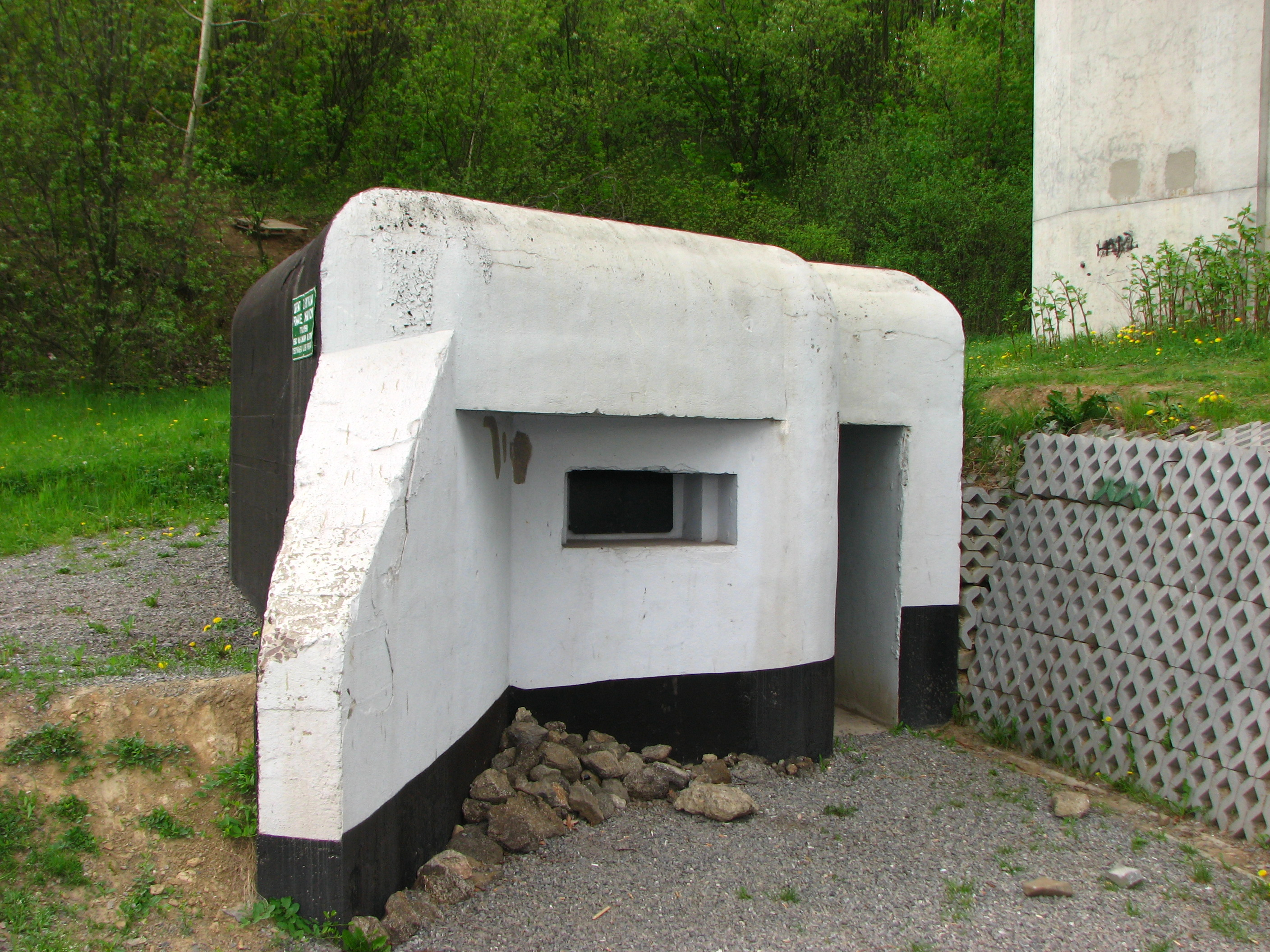 Bunker in Boguszowice (district of Cieszyn), from 1939.